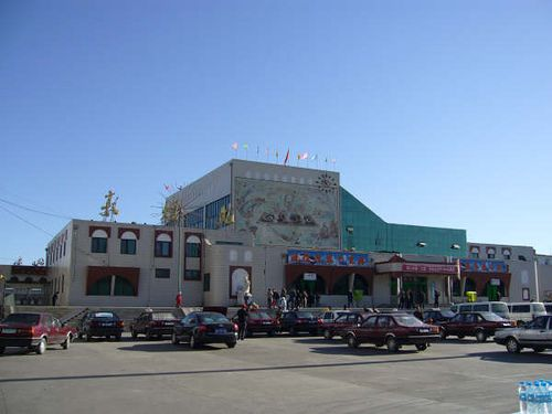 Old DunHuang Station